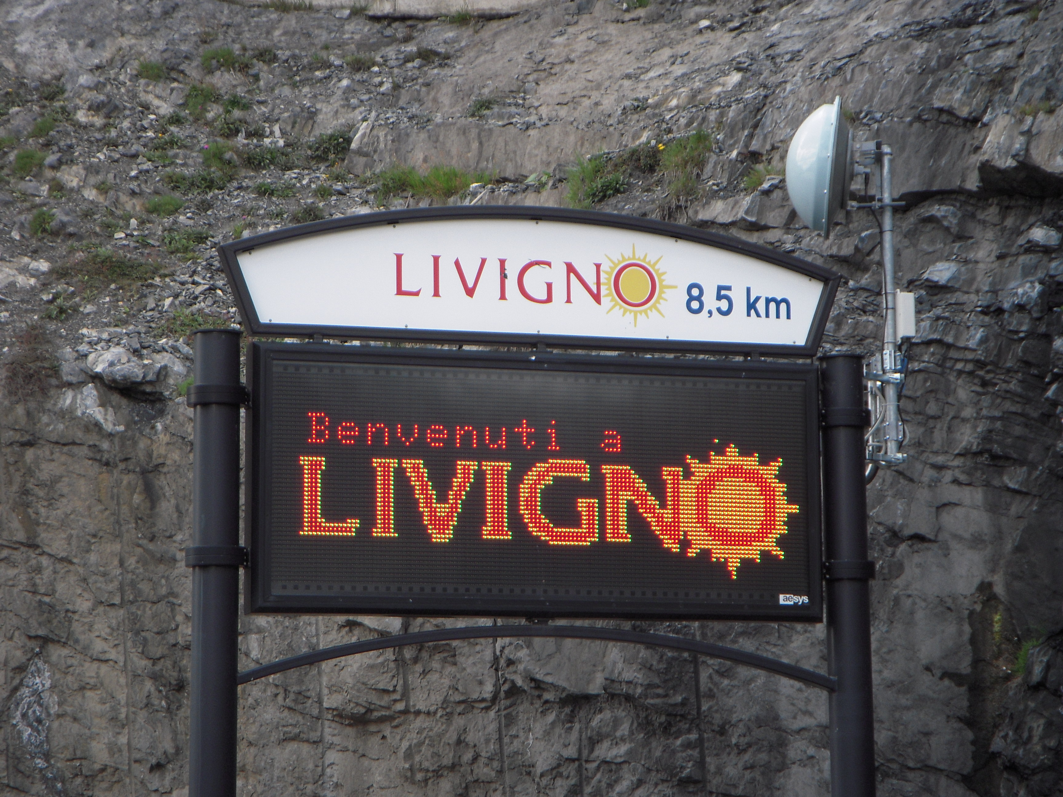 Sign near the Swiss border, showing that you are now coming to Livigno in Italy. August 14, 2012.